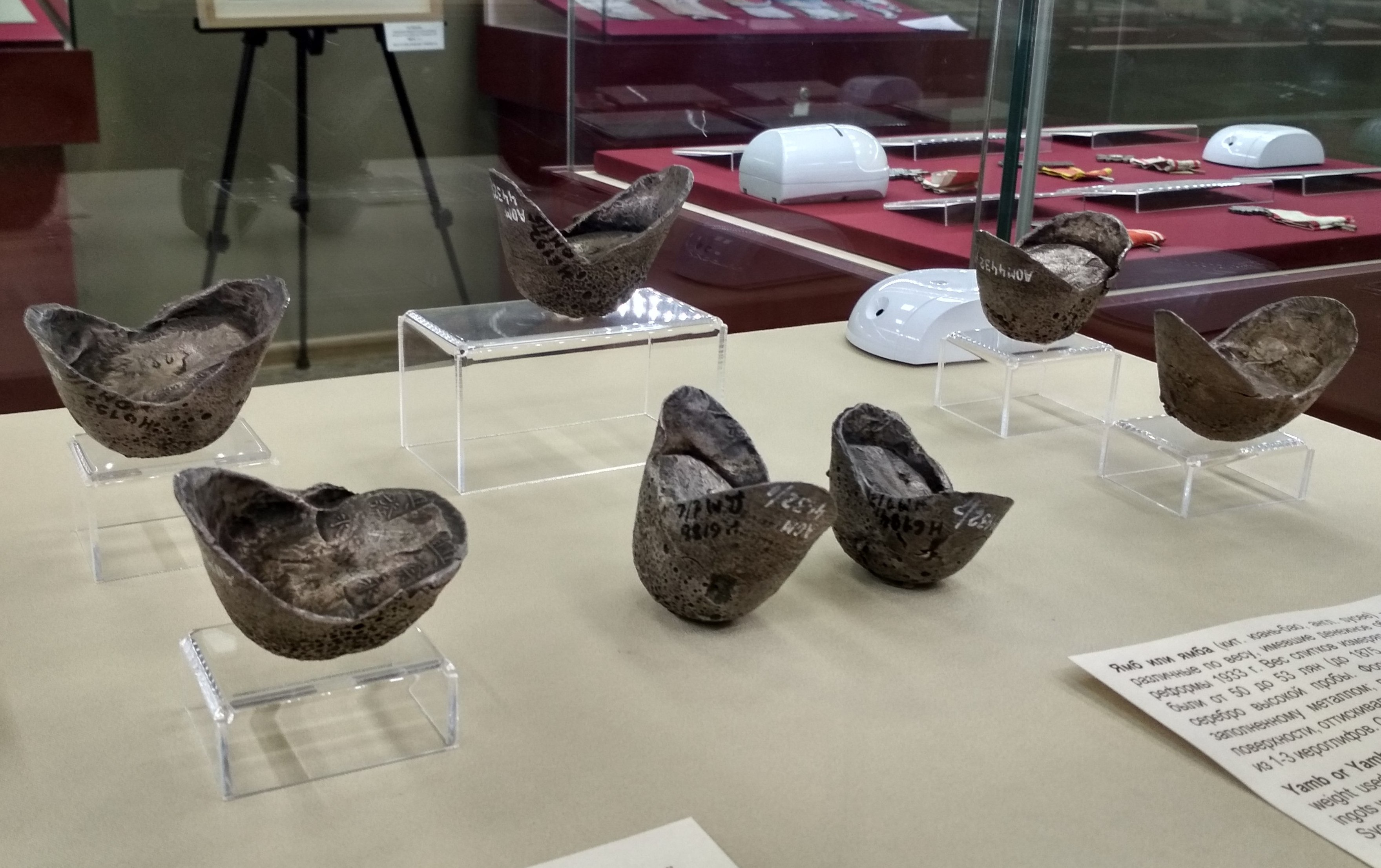 Sycee